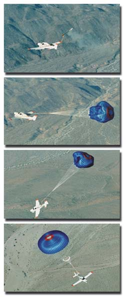 A series of photos of the Cirrus Aircraft Parachute System being deployed in flight